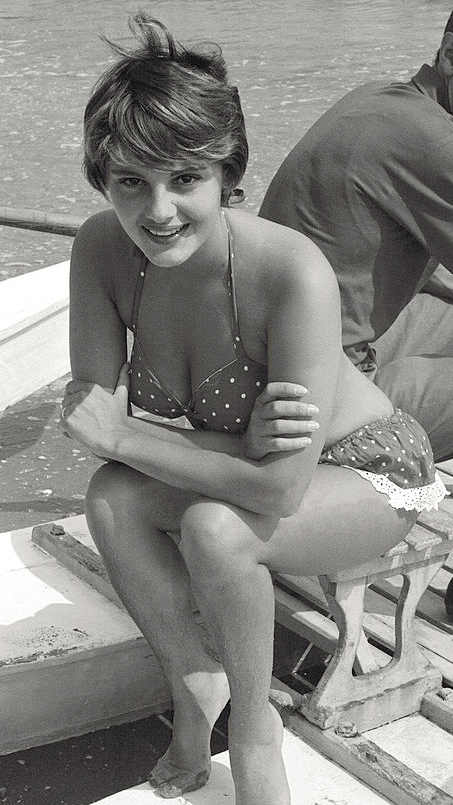 The actress Rossana Podestà, wearing a swimsuit, looks smiling at the camera, in the course of the 17th Venice International Film Festival. Venice (Italy), 1956.